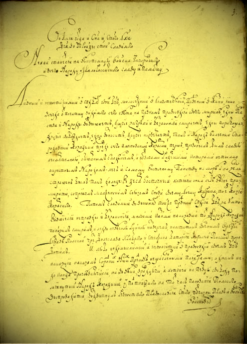 The 1st page of the original version of the Philipp Orlik's Constitution written in Old Ruthenian language in Bendery in April 1710. Russian State Archive of Ancient Acts (RGADA), f. 124, op. 2, d. 12, l. 3.